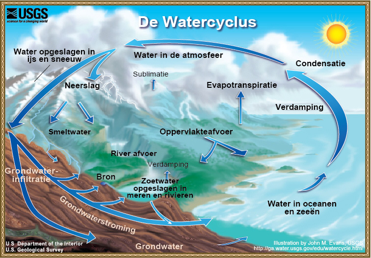 Water-Cycle Diagram (Dutch)